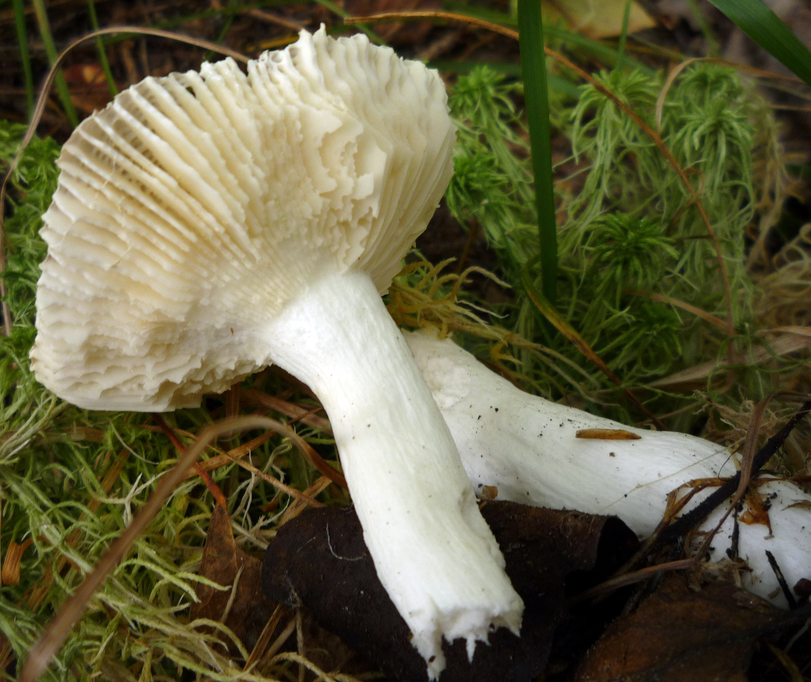 Russula nitida (Pers.) Fr. Image location: Gornopravdinsk, Khanty-Mansi Autonomous Okrug-Yugra, Russia in moist birch-pine forest (Betula spp., Pinus sylvestris, Sphagnum spp.) cap 5 cm; stem 7 × 1,5 cm, white, fragile; gills thick; flesh white, mild taste, without any smell; spore print yellow (III). coll. number BAS-GP47 Recognized by sight For more information about this, see the observation page at Mushroom Observer.